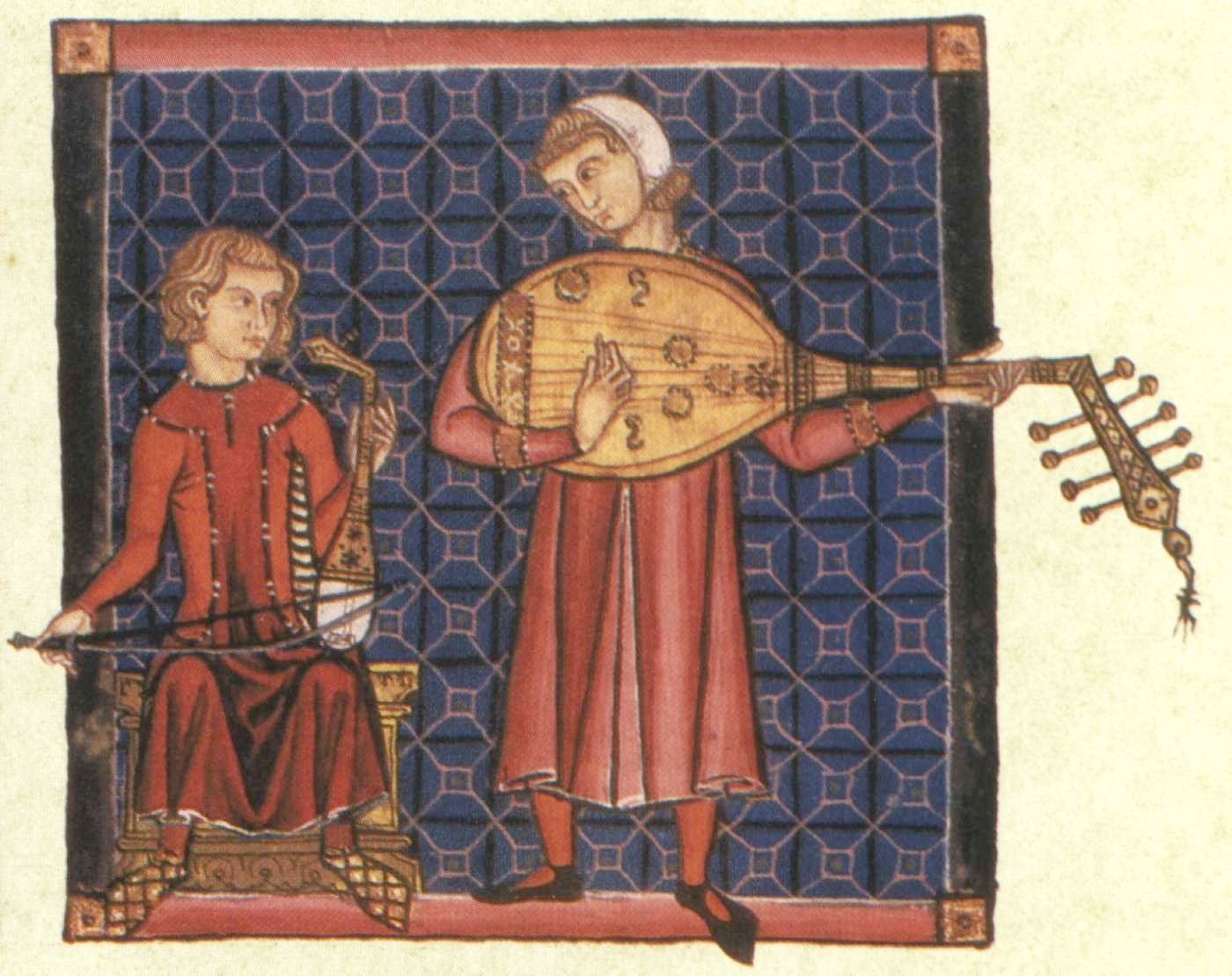 Bowed and plucked lutes from the Cantigas de Santa Maria manuscript. The Cantigas de Santa Maria (Songs to the Virgin Mary) are manuscripts written in Galician-Portuguese, with music notation, during the reign of Alfonso X El Sabio (1221-1284) and are one of the largest collections of monophonic (solo) songs from the Middle ages.